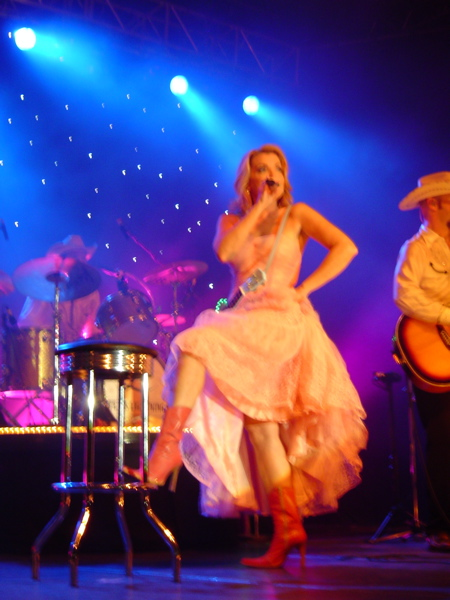 Photograph of Jane Comerford taken at Texas Lightning concert in Berlin